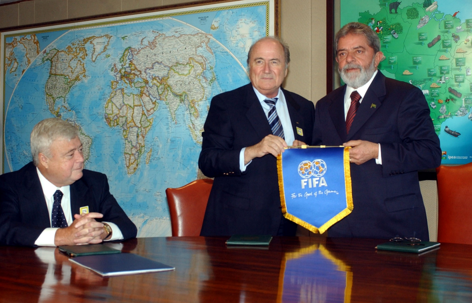 Joseph Blatter (left), Luiz Inácio Lula da Silva (right) Ricardo Teixeira (seated) in Brasília